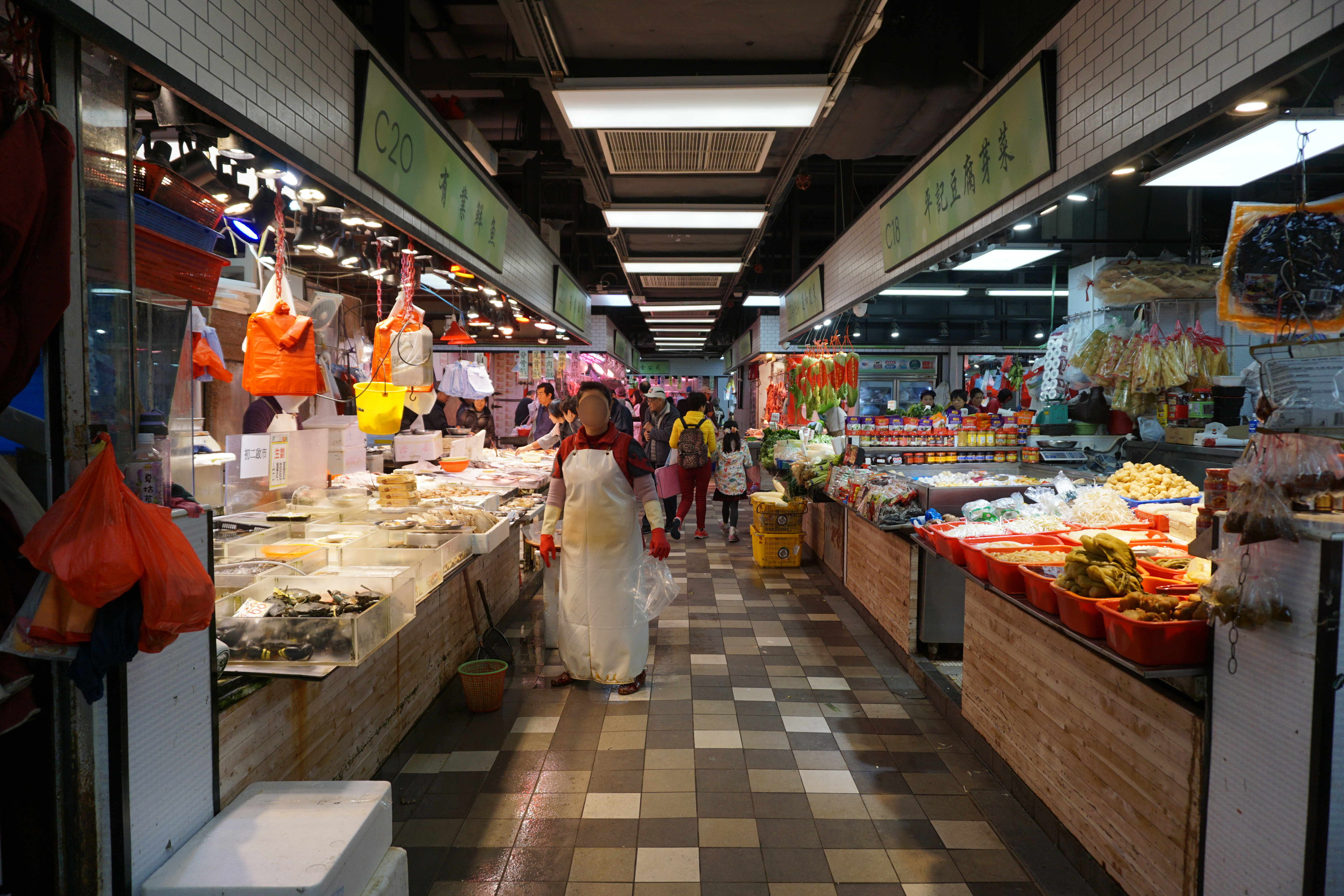 Chung On Market in Heng On, Hong Kong.